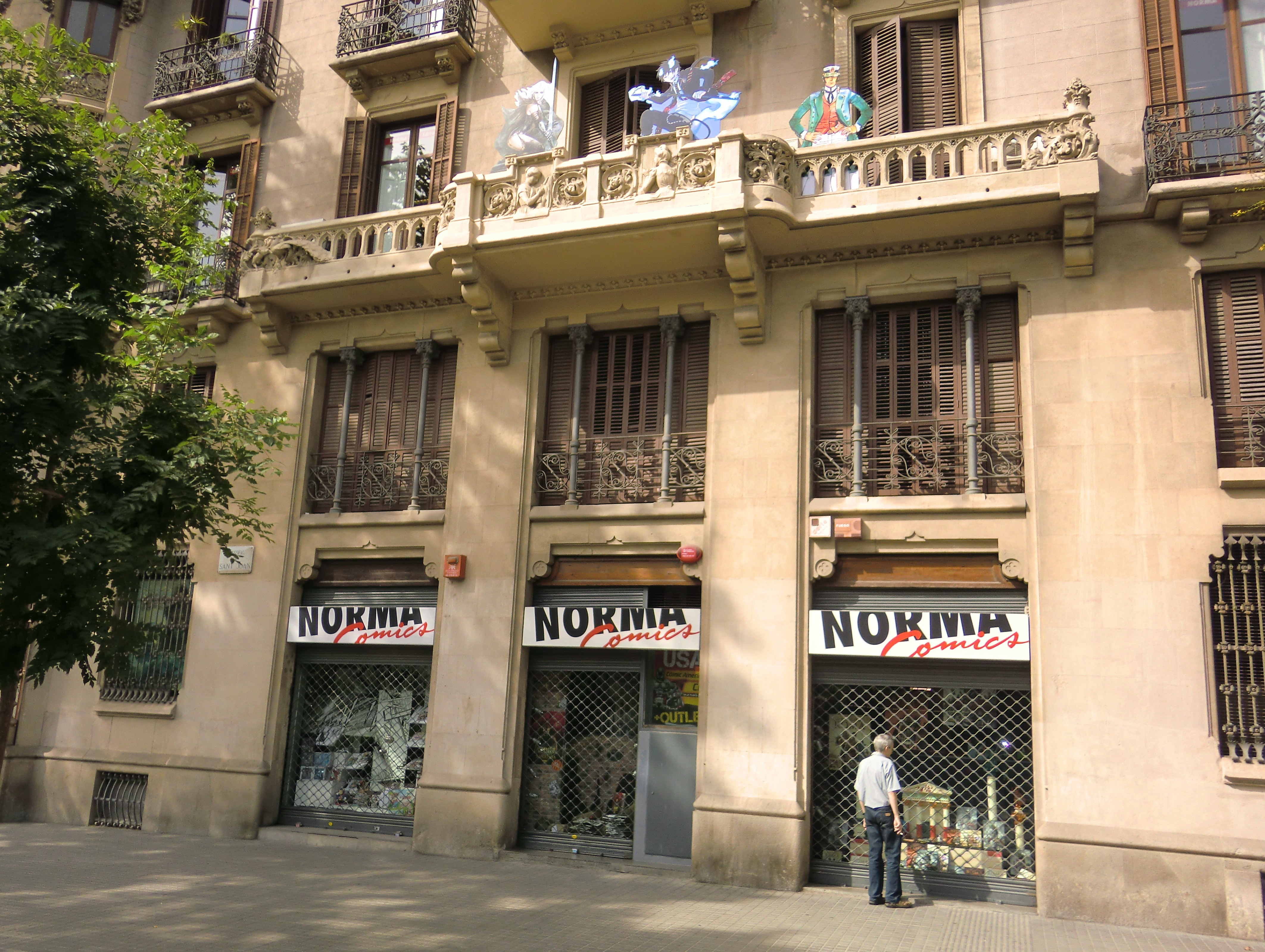 Norma Editorial's head office, Passeig de Sant Joan, 7, Barcelona (Catalonia).